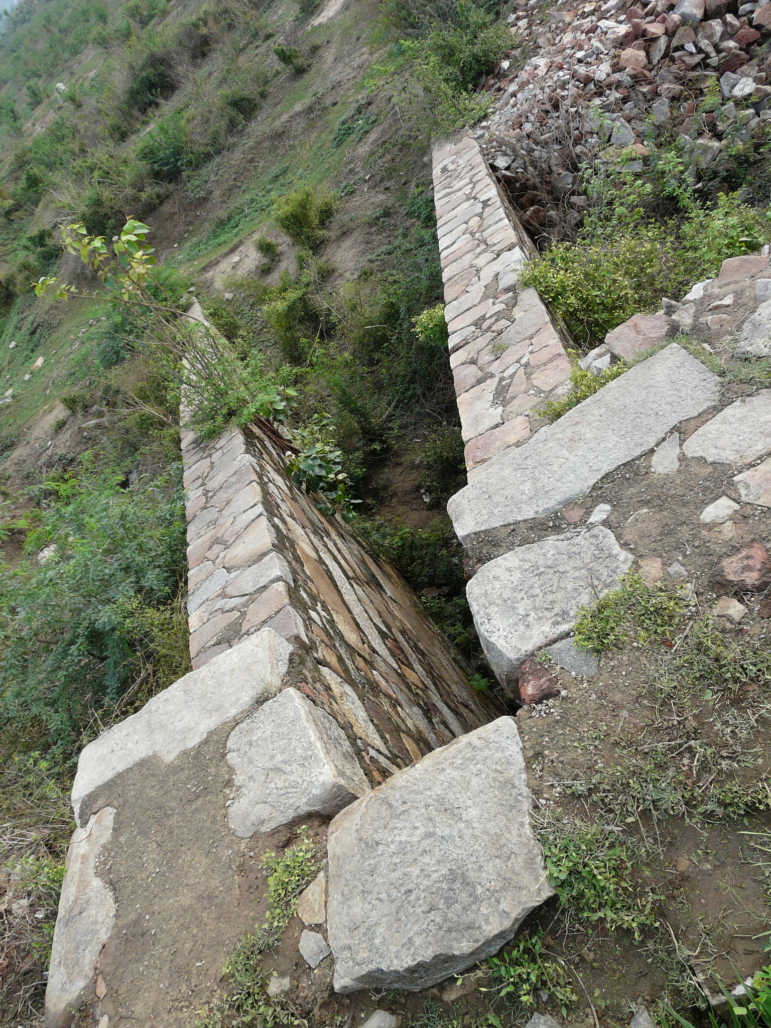 Though now of course this side is all silted over and there is no stream or lake